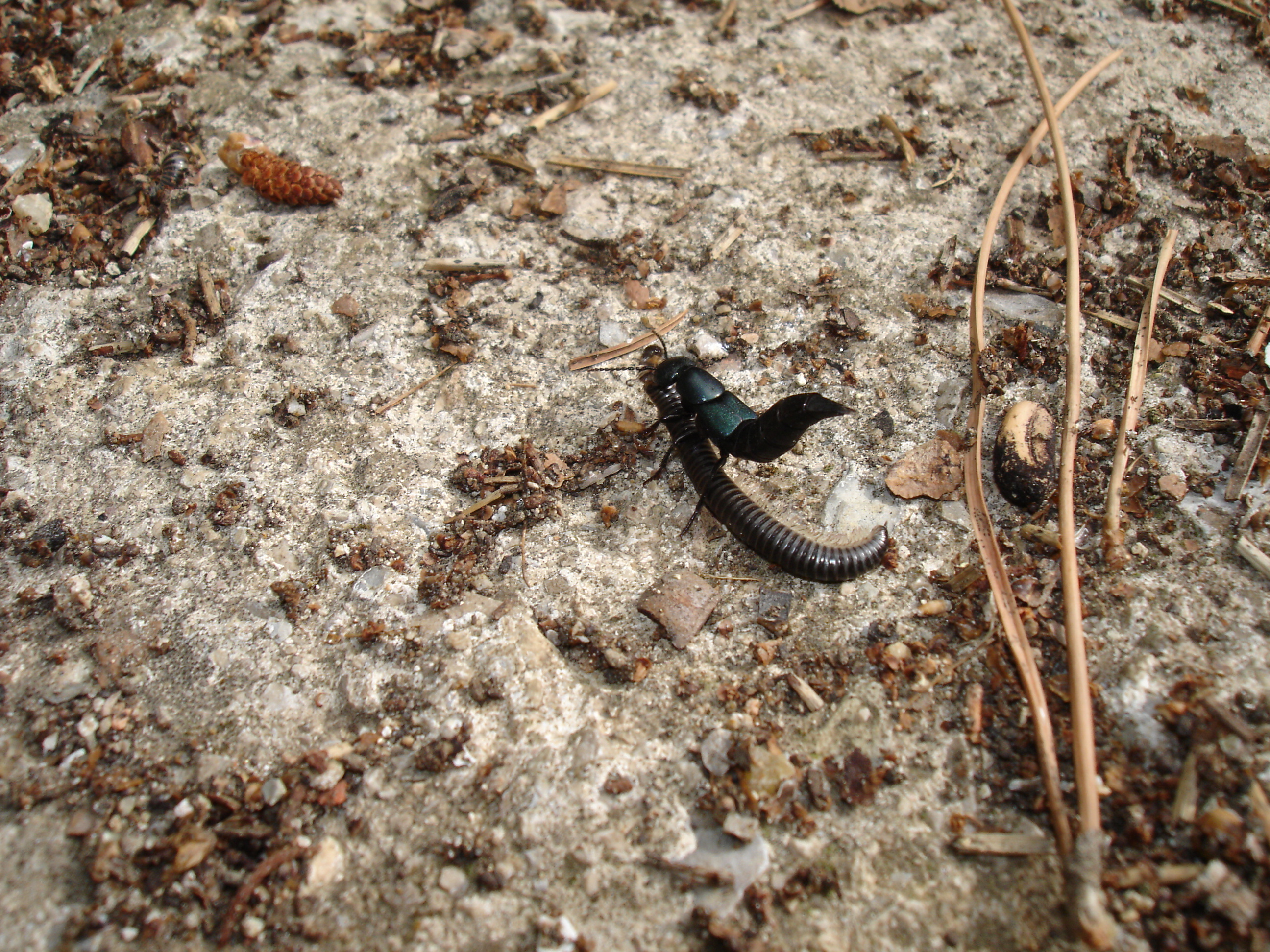 Ocypus predating on Julus terrestris 02